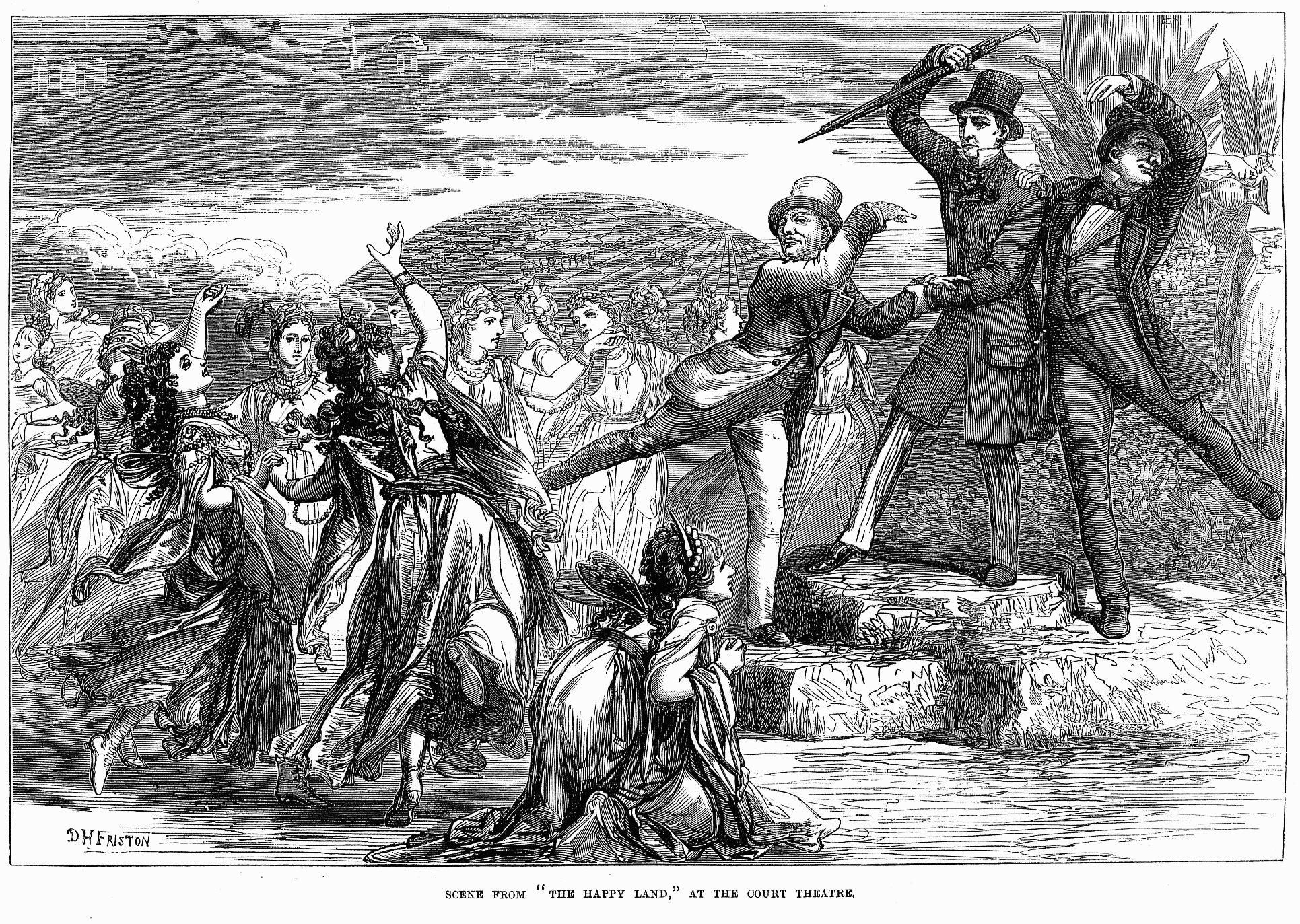 Scene from "The Happy Land" by W. S. Gilbert (as F. Latour Tomline) and Gilbert á Beckett, showing the actors dressed as Gladstone, Lowe, and Ayrton.